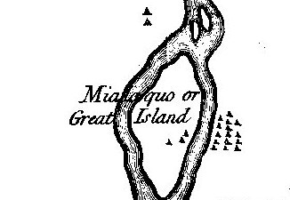 Detail of Henry Timberlake's 1765 "Draught of the Cherokee Country," showing the location and layout of the Cherokee town of Mialoquo, or "Great Island". The Mialoquo site is now submerged under Tellico Lake in modern-day Monroe County, Tennessee, in the southeastern United States. The village's namesake island (pictured with dwellings) would later be known as Rose Island.